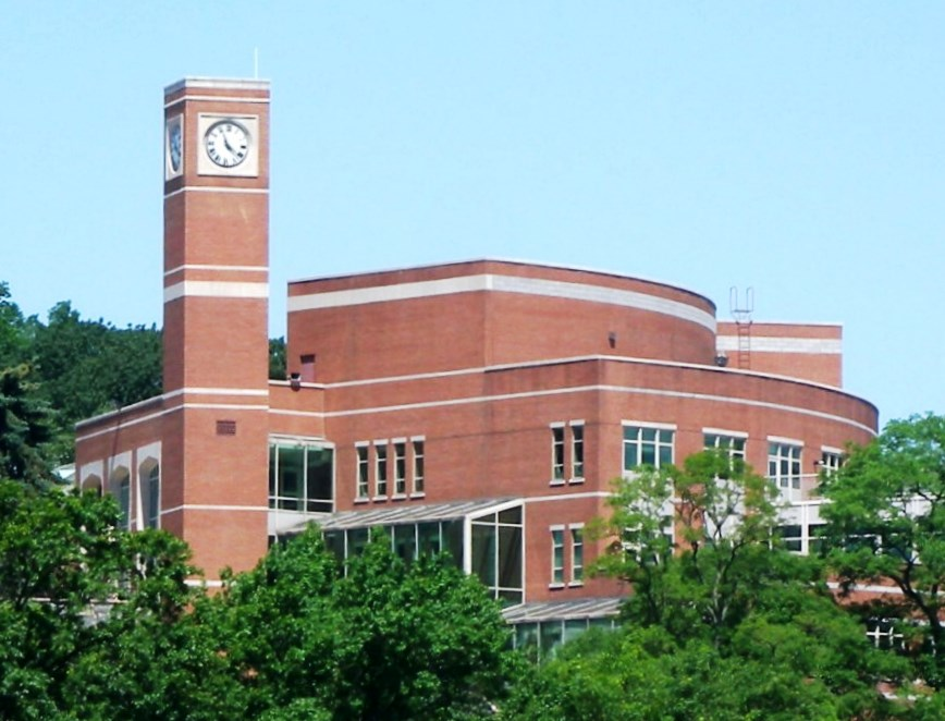 Looking northwest from Van Cortland Park at Fisher Hall of the Horace Mann School upper school on a sunny morning.